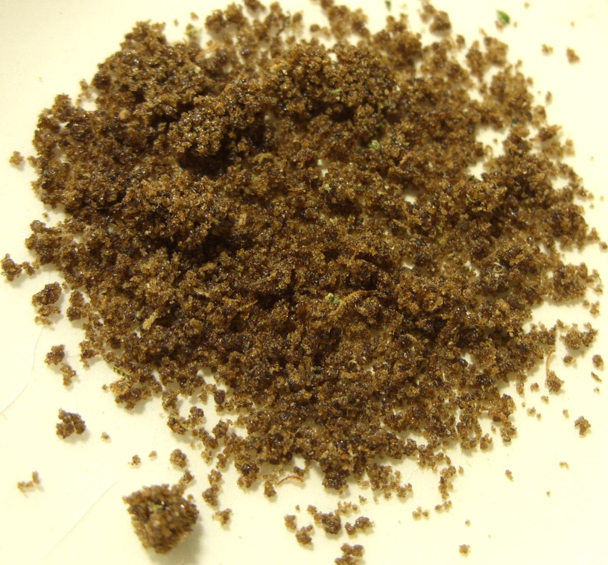 Grape Kush bubble hash, purified and cured trichomes from Grape Kush cannabis Indica